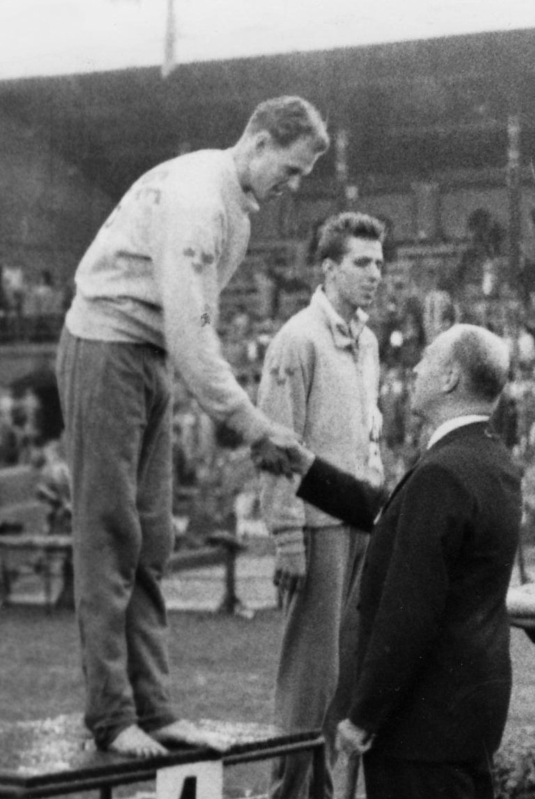 Left-right: Jiří Lanský, Richard Dahl, Stig Pettersson at the 1958 European Championships in Stockholm